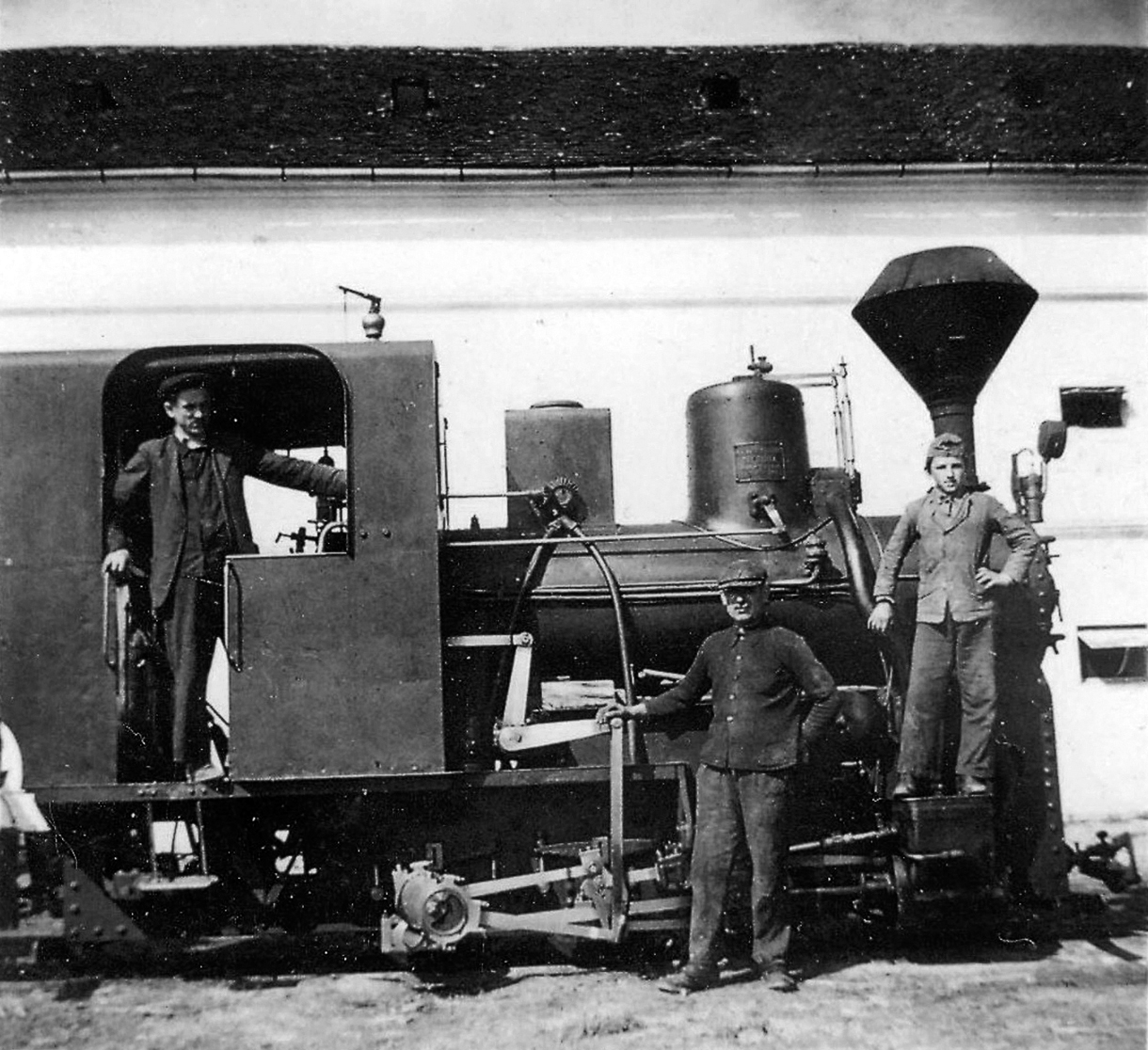 Steam engine of the Csoma-Szabadi GV in the station of Szentivánpuszta, Hungary